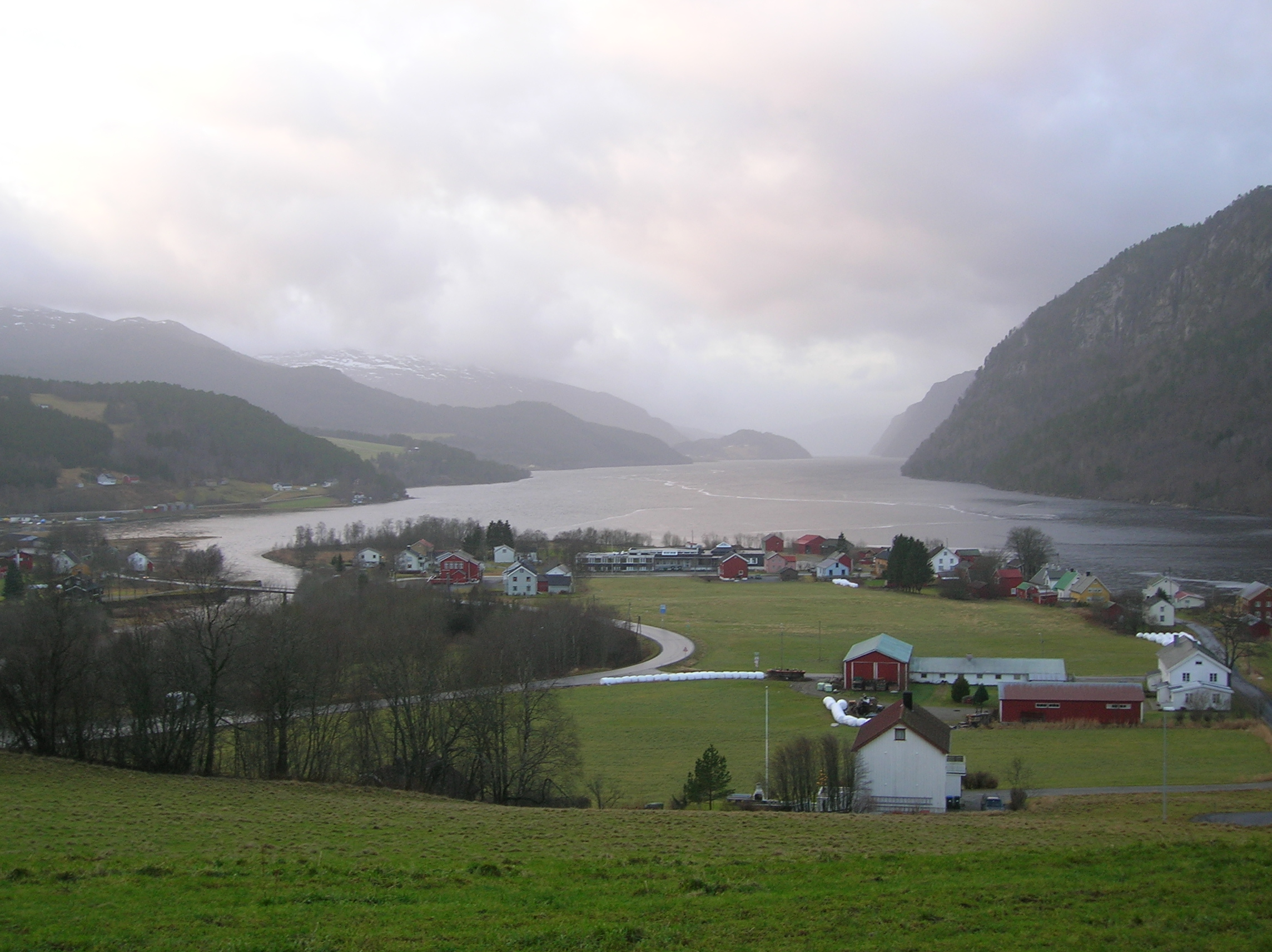 Picture of the Norwegian village Vinjeøra